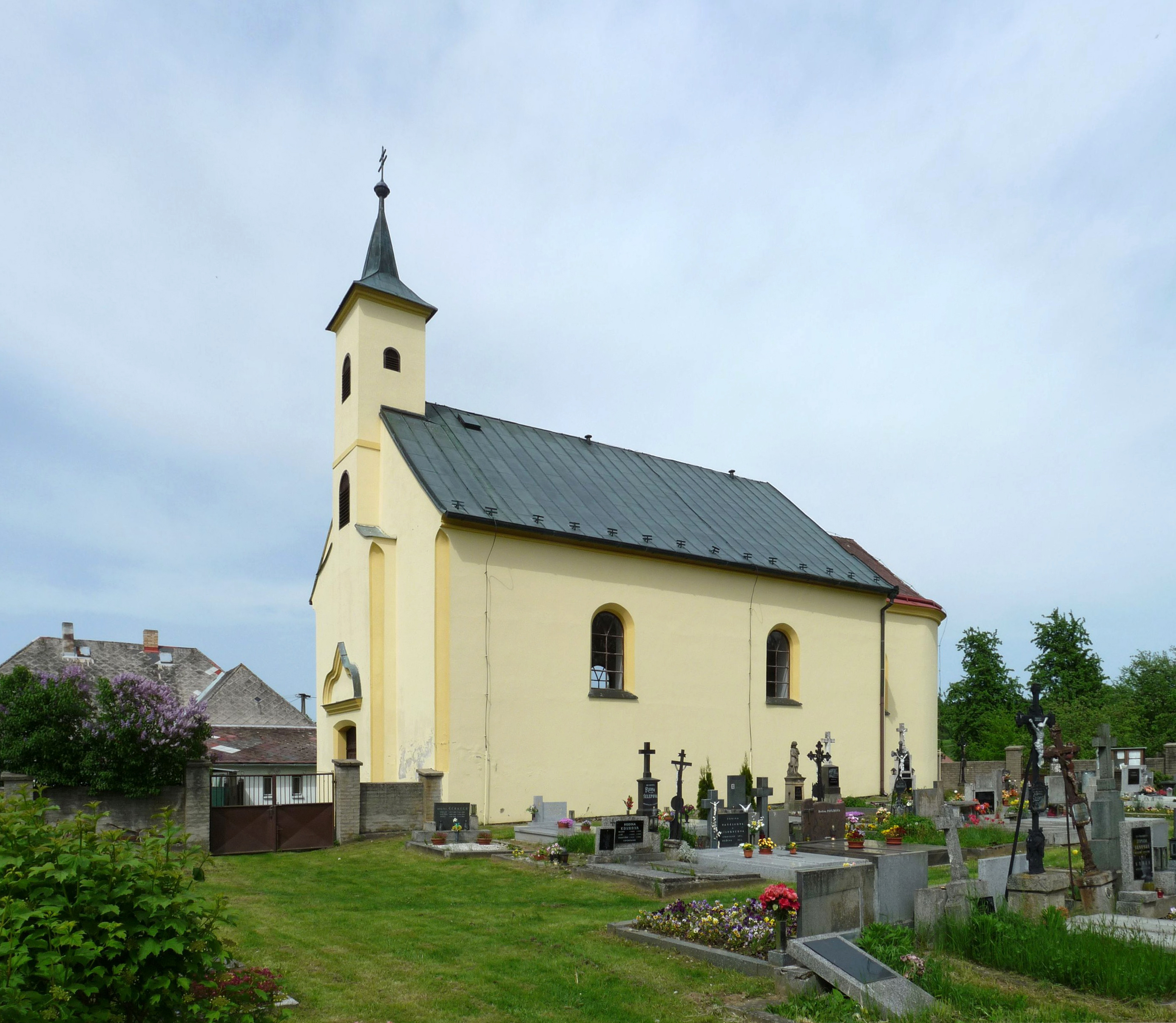 Church of Saint Wenceslaus in the village of Hojovice, Pelhřimov District, Vysočina Region, Czech Republic.